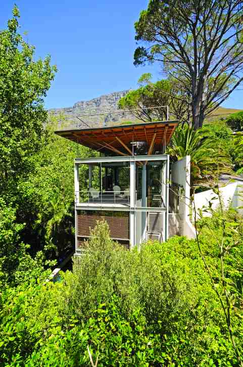 Elevation of Tree House in Cape Town, South Africa. Architect: Van der Merwe Miszewski Architects